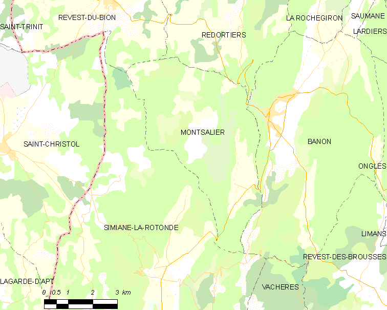 Map commune FR insee code 04132.png Légende